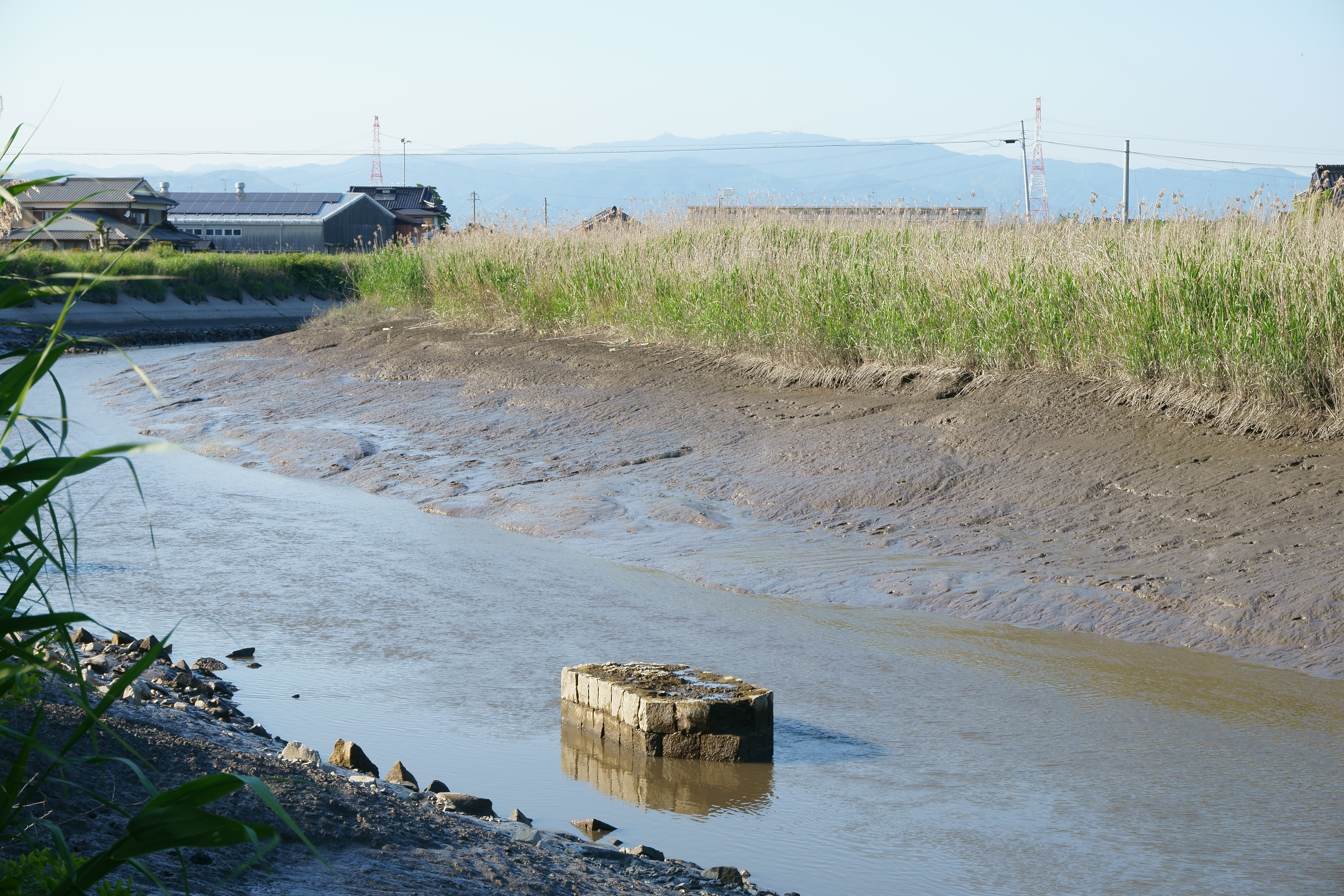 An stone basement ruin in Jobaru River, in Hasuike, Saga city, Saga prefecture.